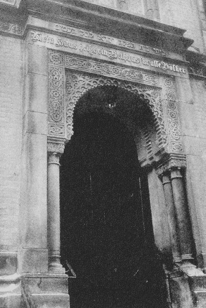 s